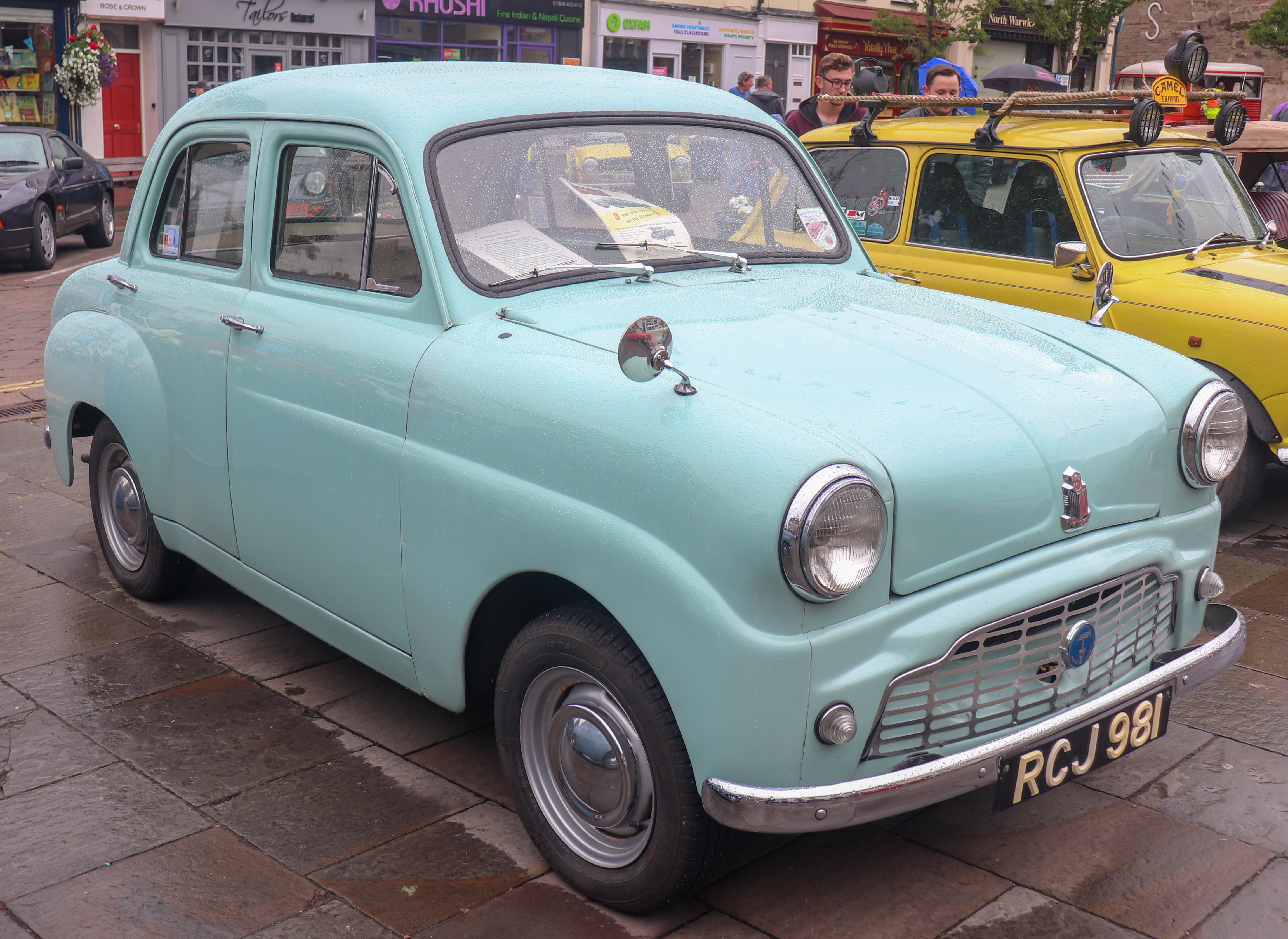 1958 Standard Eight Front Taken at the 2018 Warwick Classic Car Show